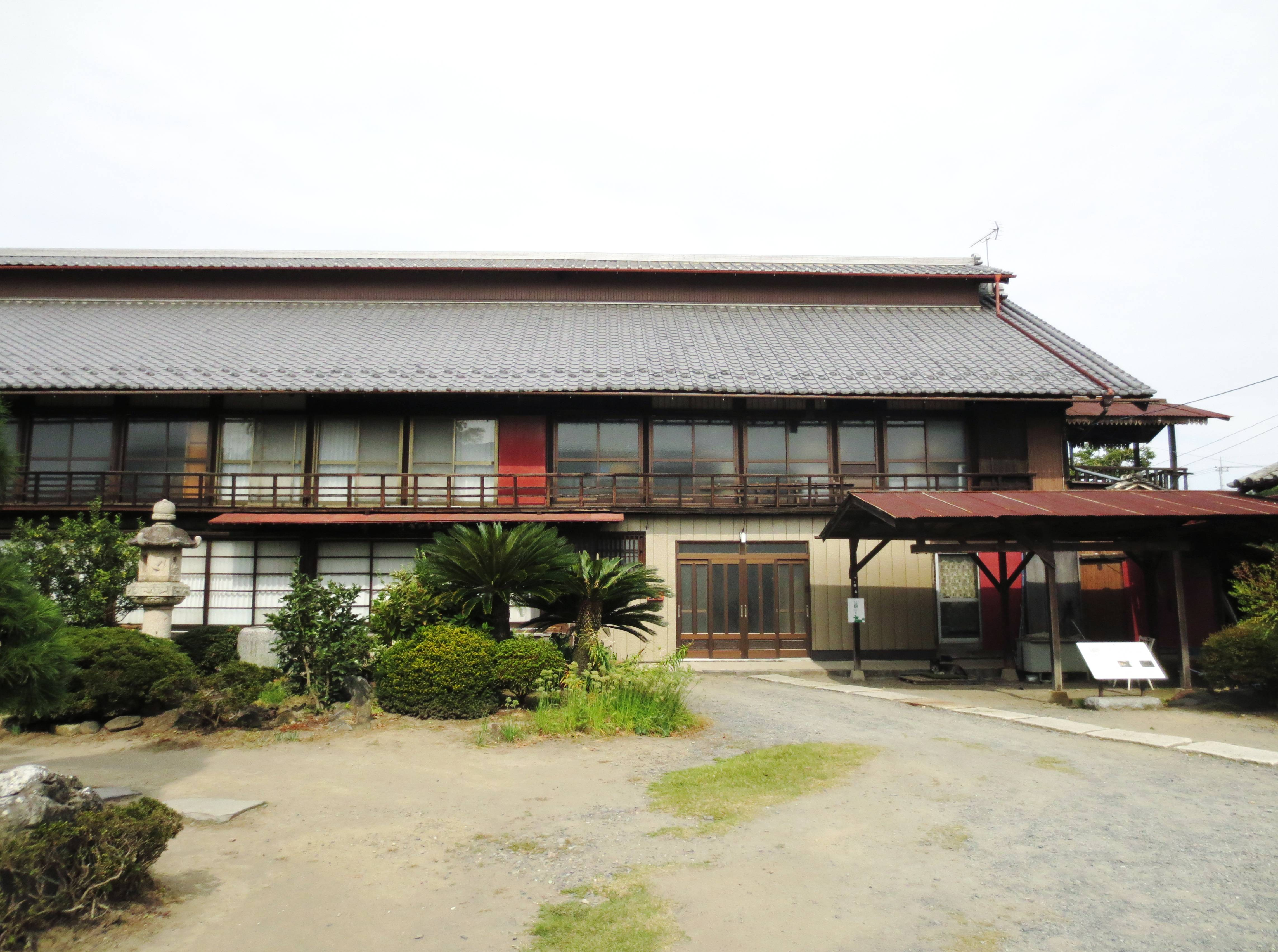 Tajima Yahei Sericulture Farm.